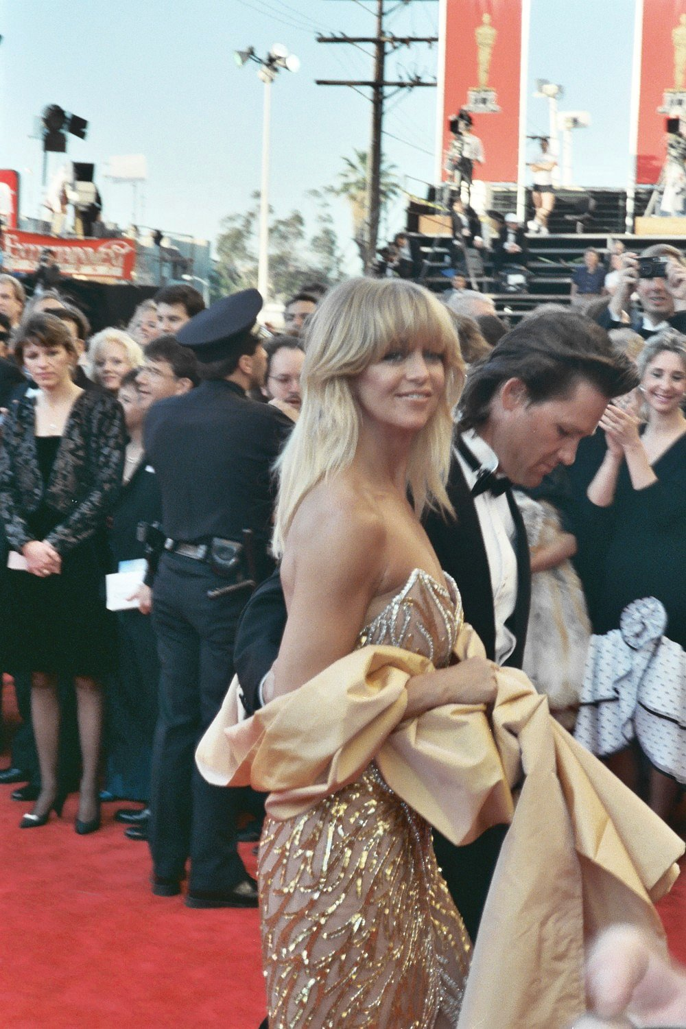 Goldie Hawn and Kurt Russell arrive at the 61st Annual Academy Awards, 1989. Scanned from the original 35MM film negative.